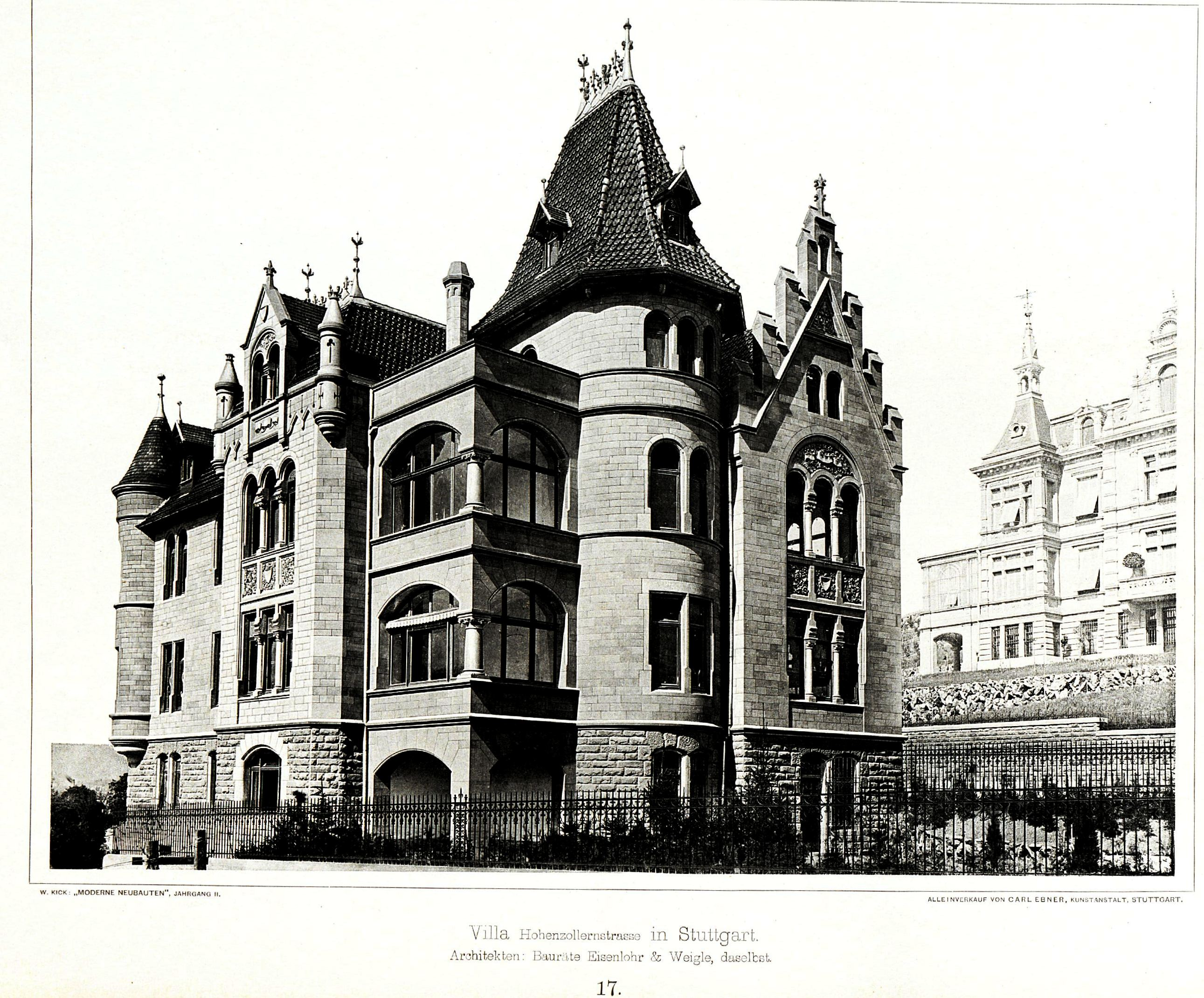 Villa_Hohenzollernstrasse_in_Stuttgart,_Architekten_Bauräte_Eisenlohr_&_Weigle,_Tafel_17,_Kick_Jahrgang_II.jpg